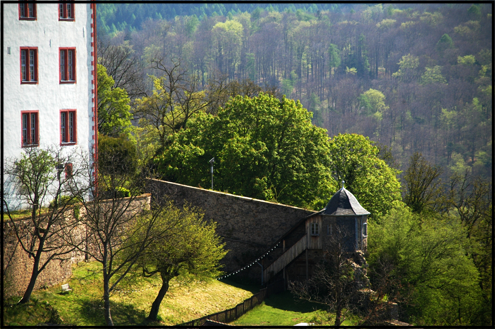 Lichtenberg castle detail